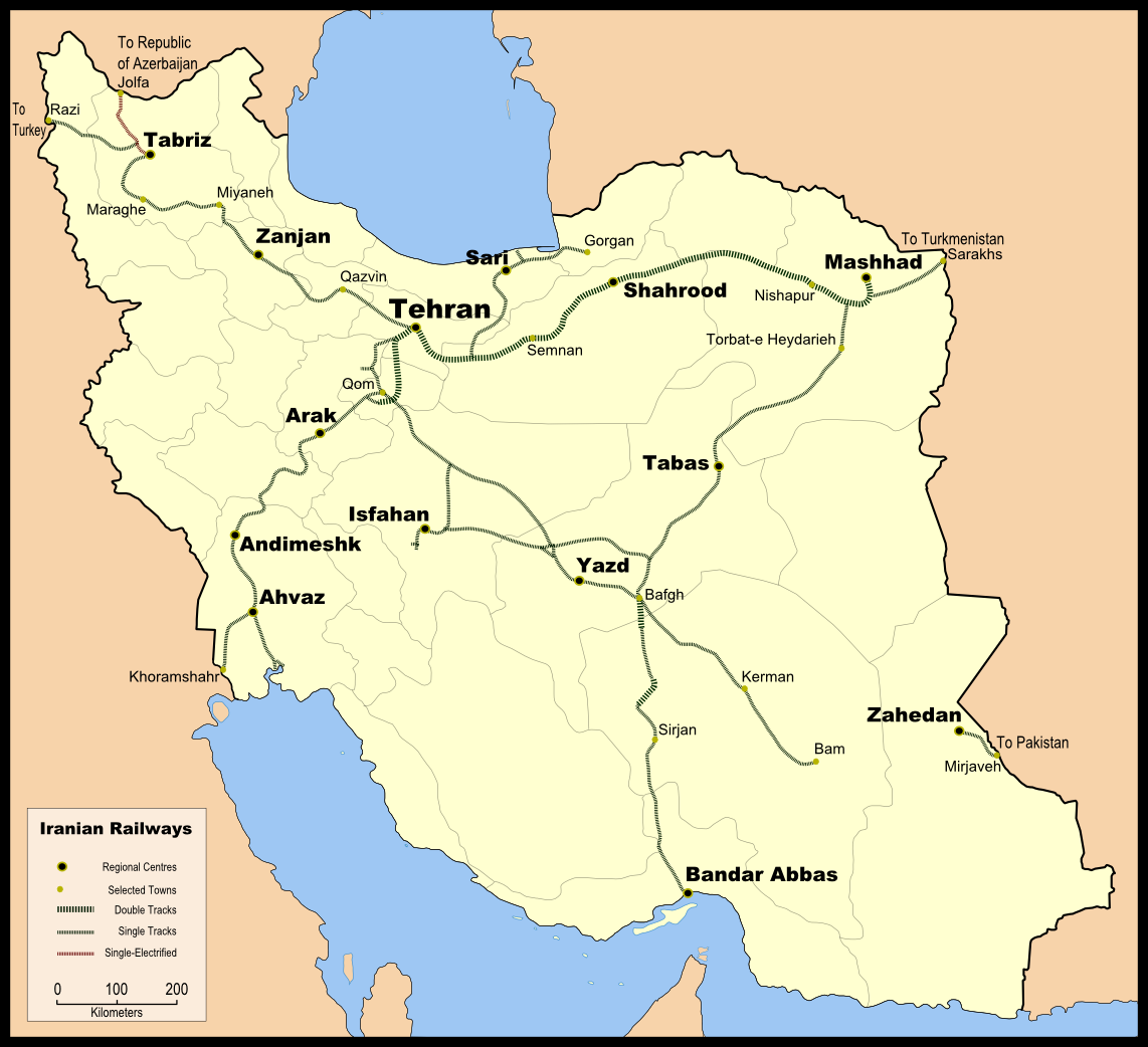 Iranian Rail Network Map As of 09-2006. By:Kaveh